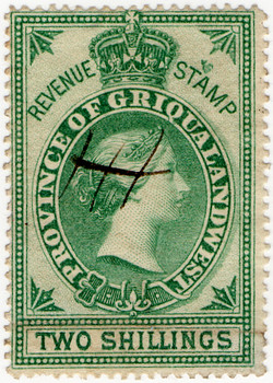 Griqualand West 1879 revenue stamp.